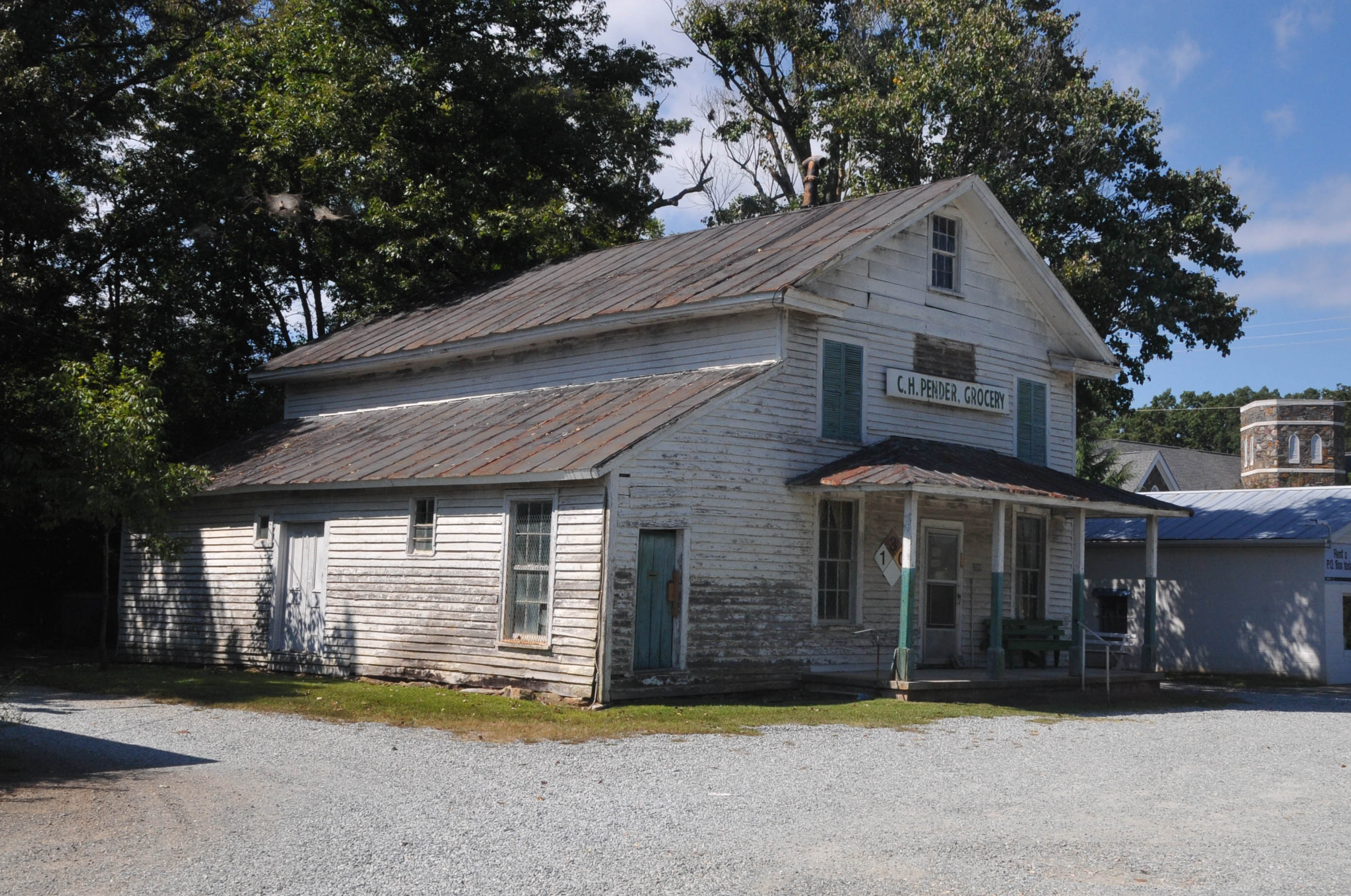 OLD GROCERY STORE IN THE HISTORIC DISTRICT; CIRCA 1880; LOCATED AT JUNCTION OF CARR STORE AND EFLAND-CEDAR GROVE ROADS